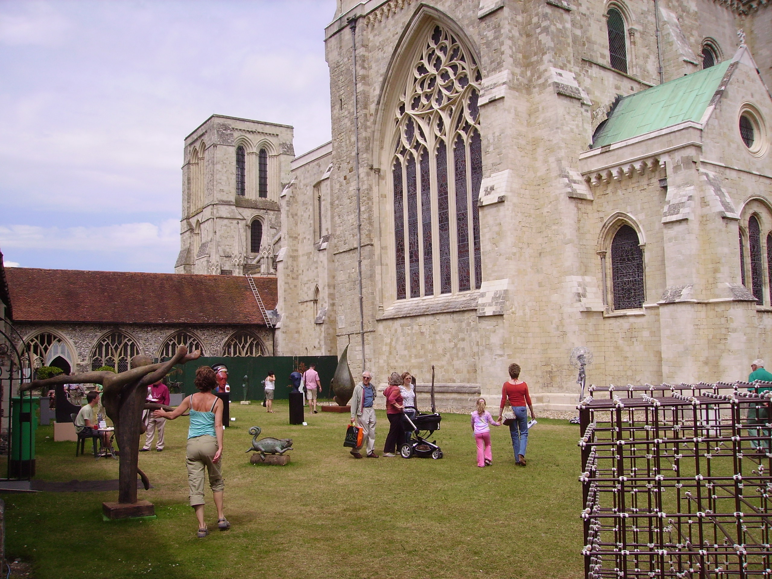 view of Chichester, United Kingdom